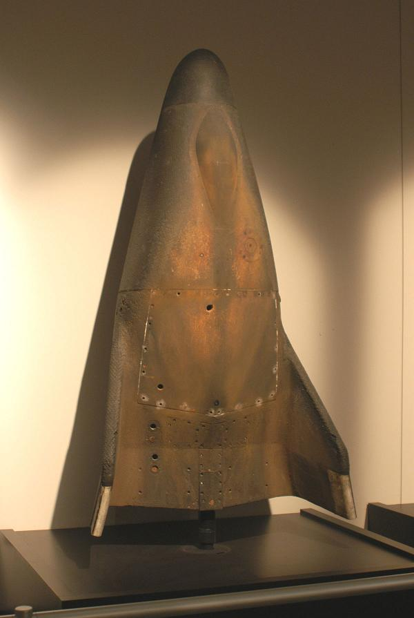 Photograph of a preserved SV-5D X-23 PRIME subscale lifting body on display at the National Museum of the United States Air Force Dayton, Ohio USA. Image taken from museum's website [1]